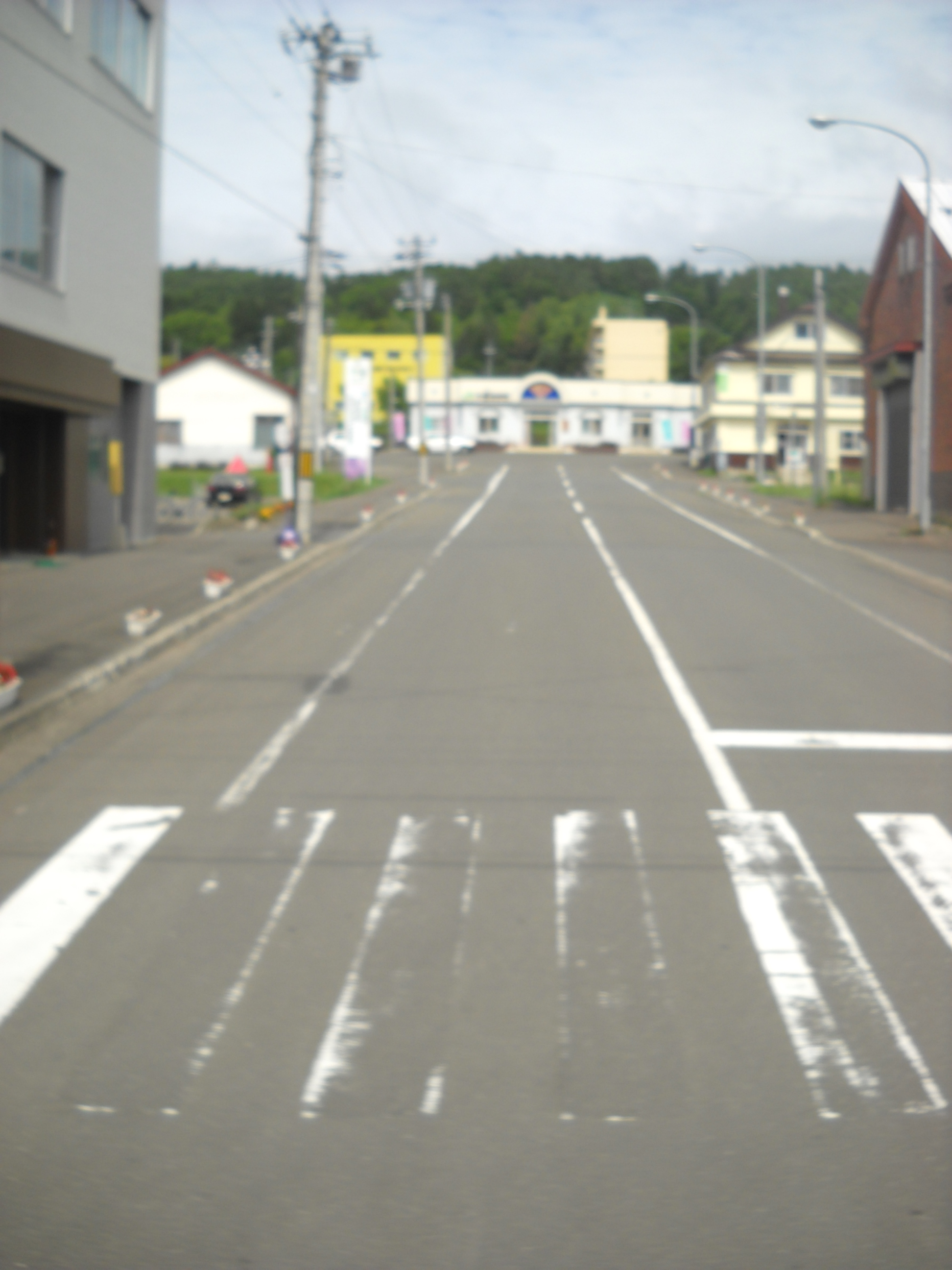 Hokkaido prefectural road route705, Furano, Hokkaido, Japan